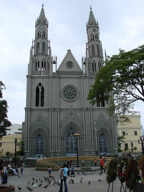 Cathedral of Saint John the Baptist, Valera.